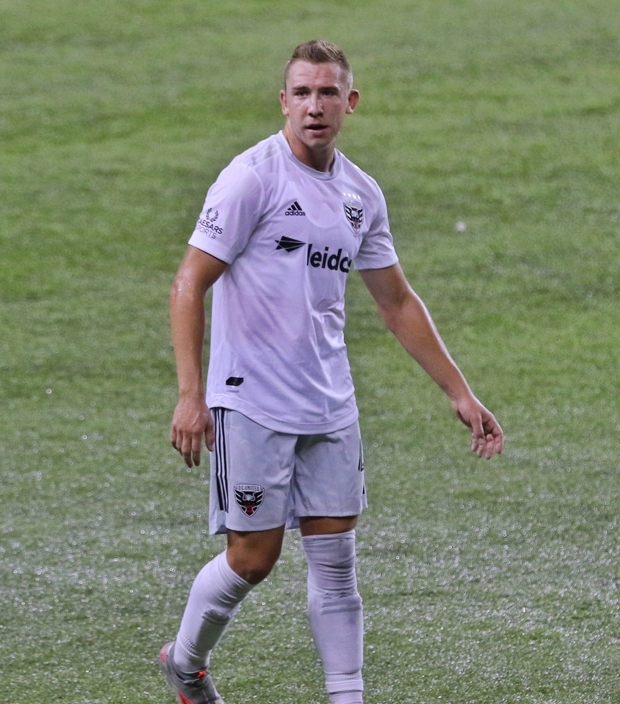 Russell Canouse playing for D.C. United on Aug. 21, 2020.